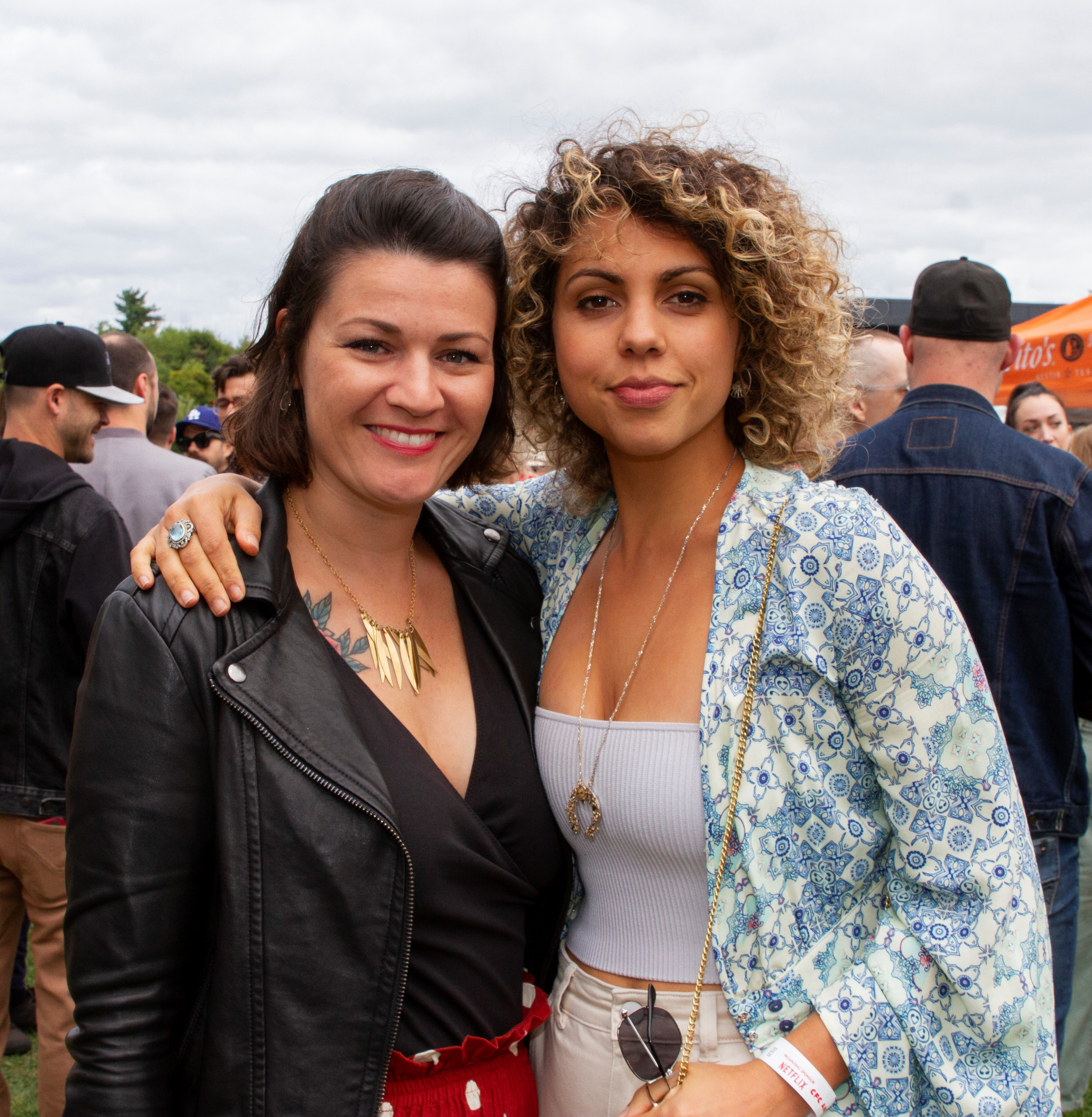 Actress Jess Salgueiro and producer Karen Moore